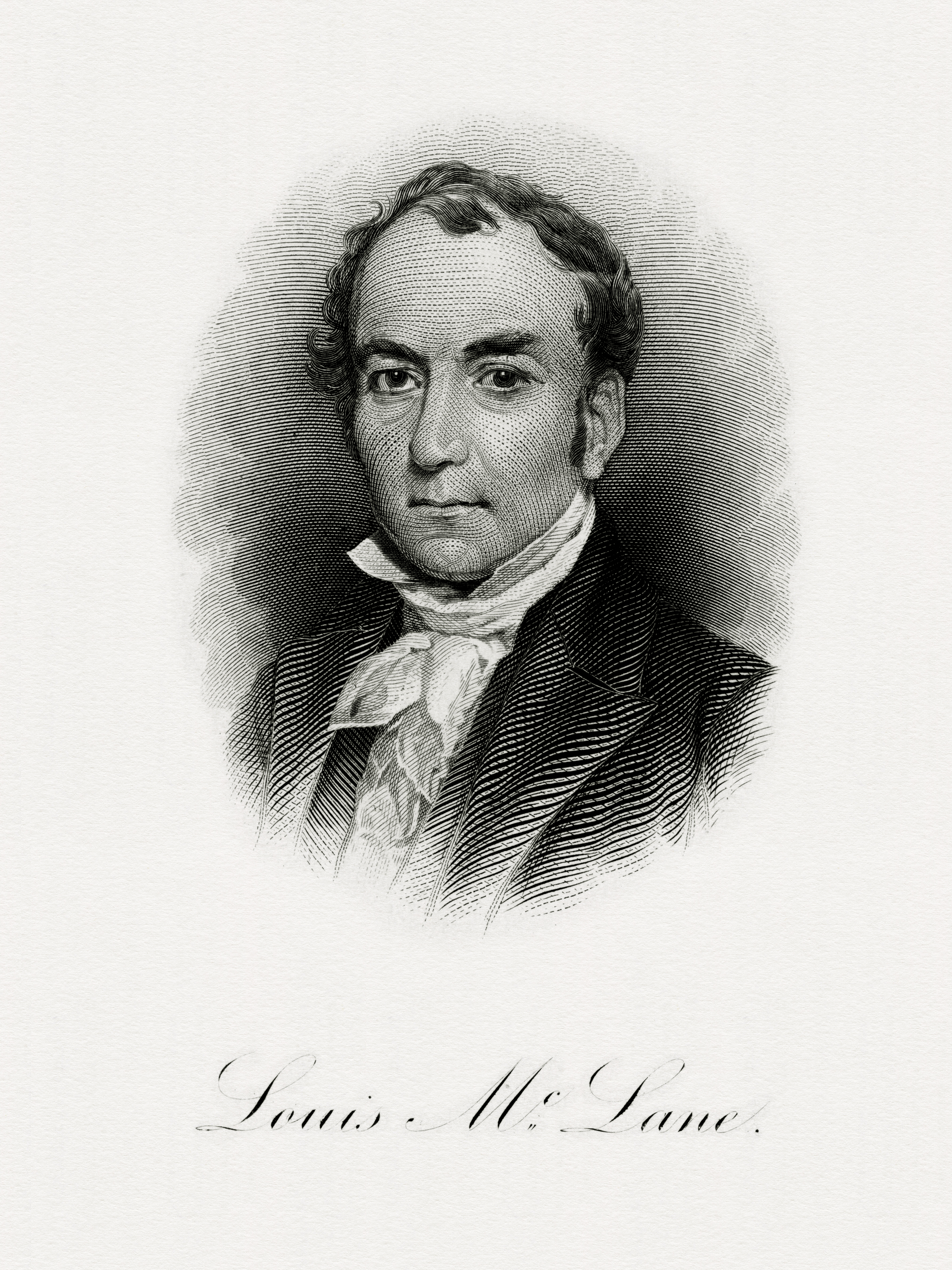 Engraved BEP portrait of U.S. Secretary of the Treasury Louis McLane